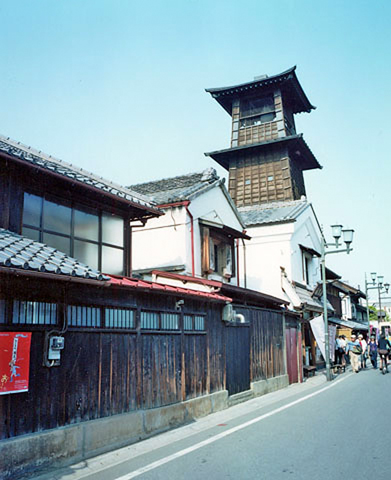 'Toki no Kane' bell tower, Edo period design, Kawagoe-shi, Saitama Prefecture, Japan. I took this photograph and contribute it to the public domain.